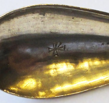 Detail of cochlearia (long spoon) showing Christian cross in bowl. Photo taken during BM/Wikipedia workshop.